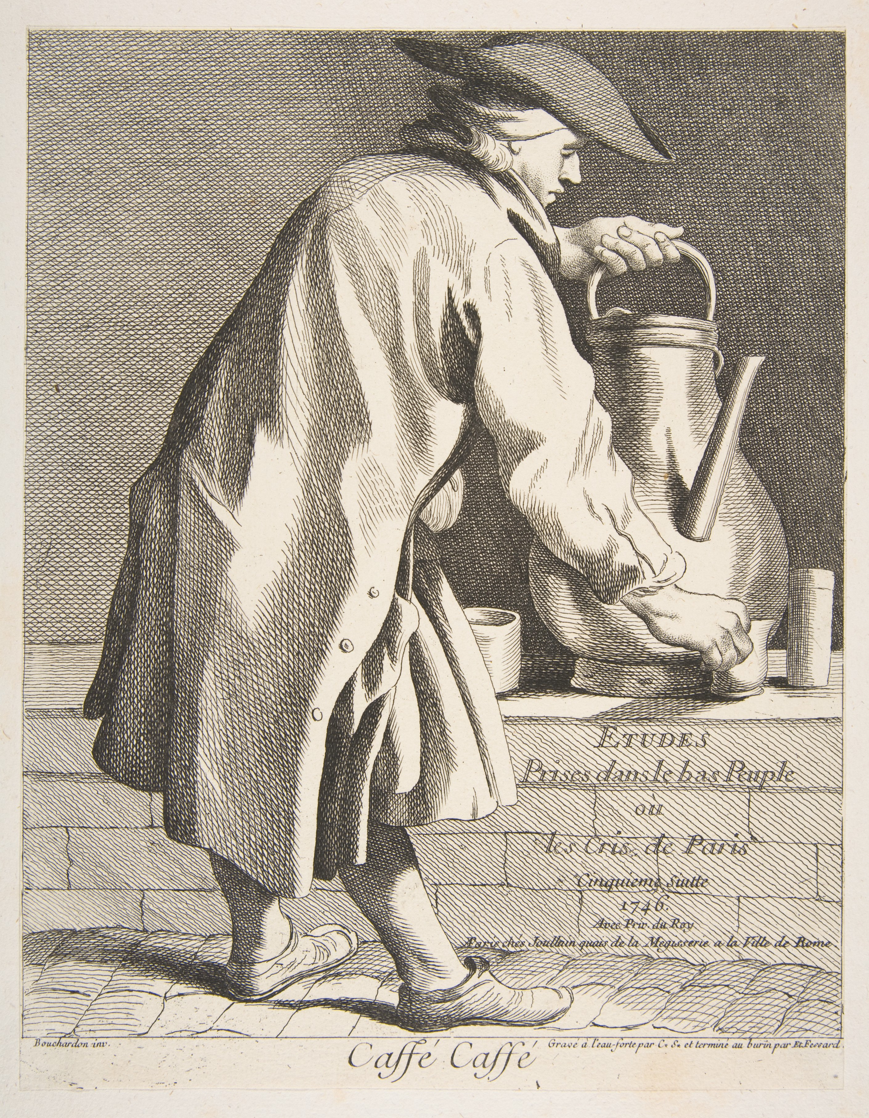 Coffee-seller; man placing a cup in front of a large coffee pot which he holds by the handle; the man is seen full-length, turned to the right, wearing hat and overcoat.